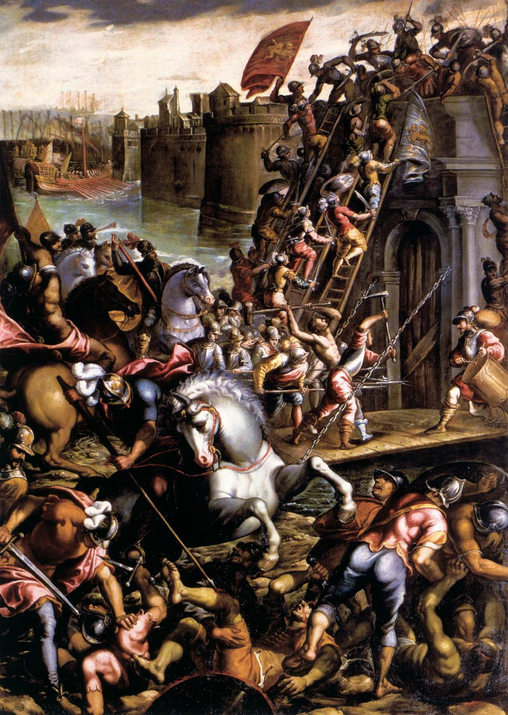 The Crusaders Conquering the City of Zara in 1202 (oil on canvas), by Vicentino, Andrea (Michieli) (1539-1614)